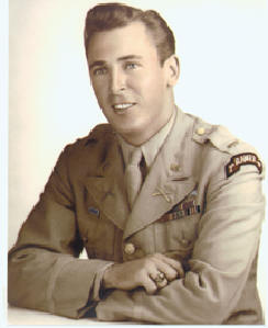 A Department of the Army photograph of Ranger Leonard Lomell, as a Second Lieutenant, in his dress uniform.